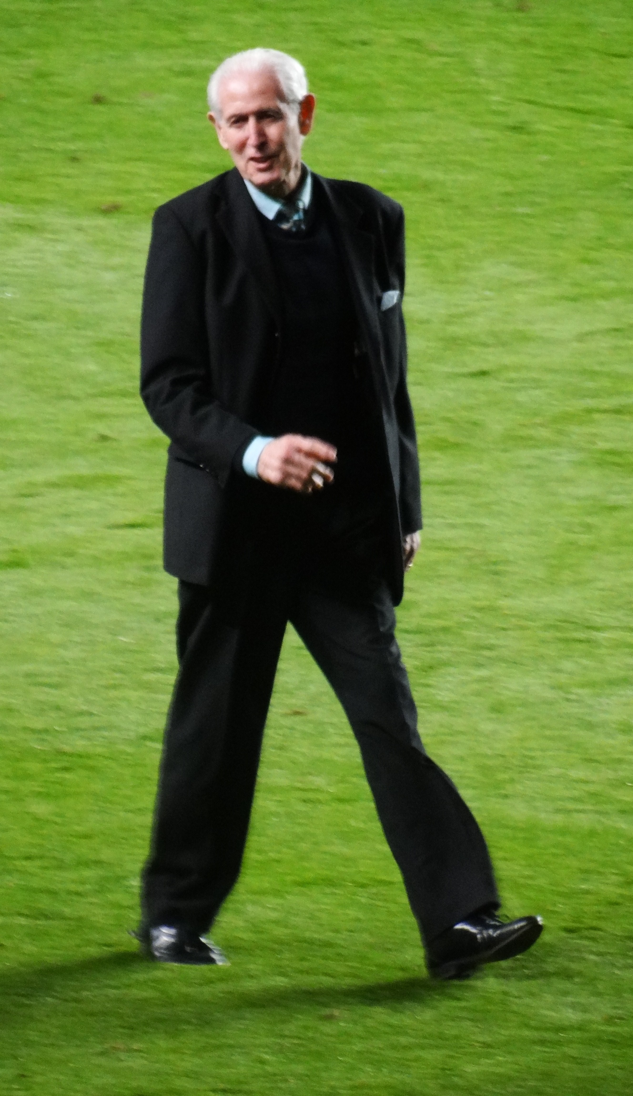 Peter Bonetti. Pictured at Chelsea FC v Paris Saint-Germain, 8 April 2014, Stamford Bridge, London.